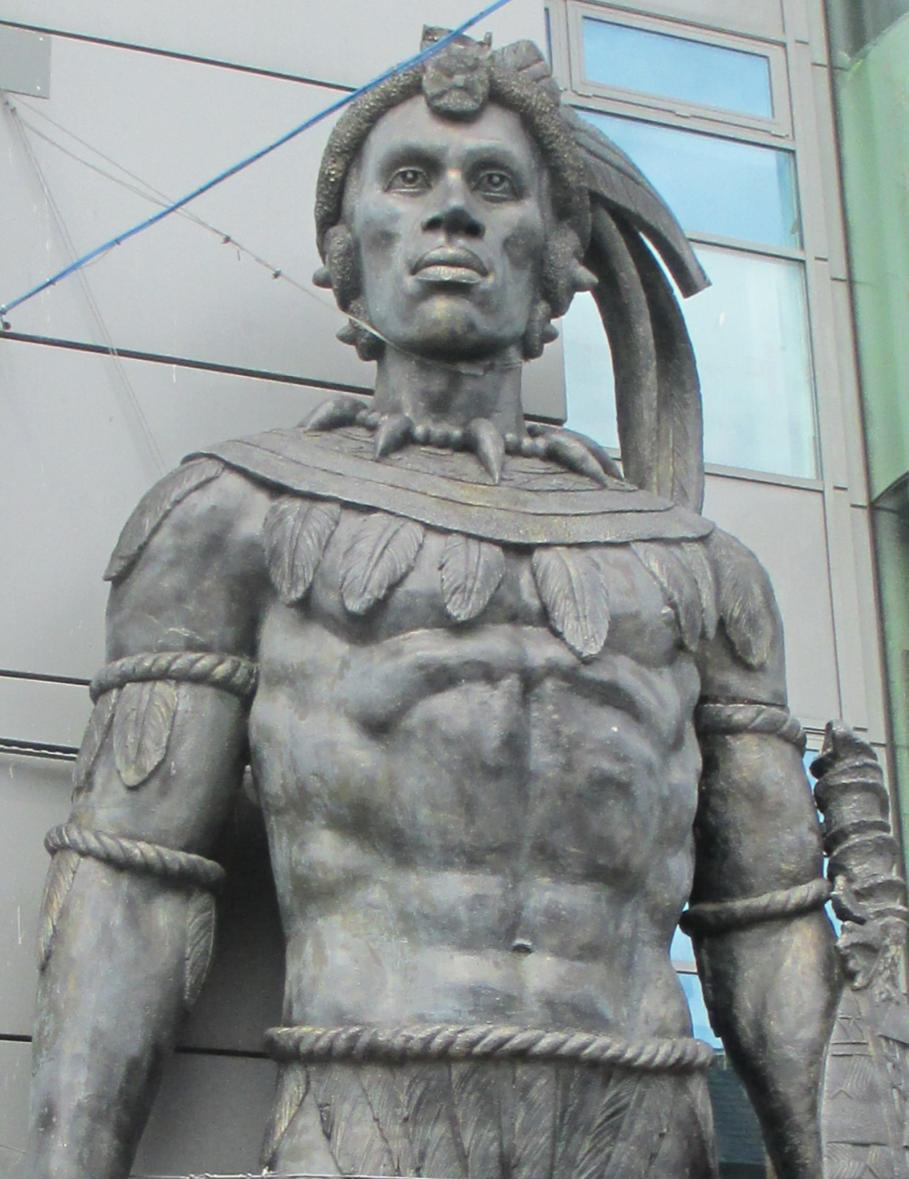 Huge statue of Shaka Zulu (upper portion), as released by image creator Ristesson HistoryPlace: Camden Market, London, England, United Kingdom